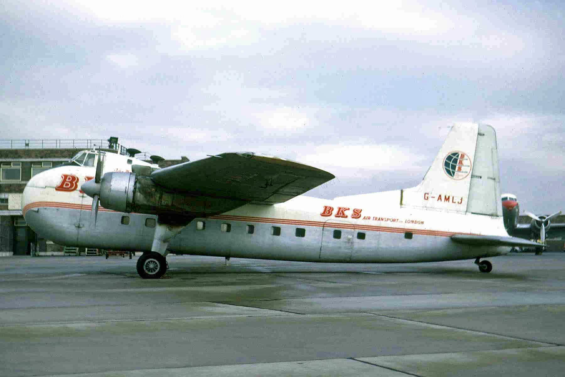 A picture of an airplane (name of it is on the file name).